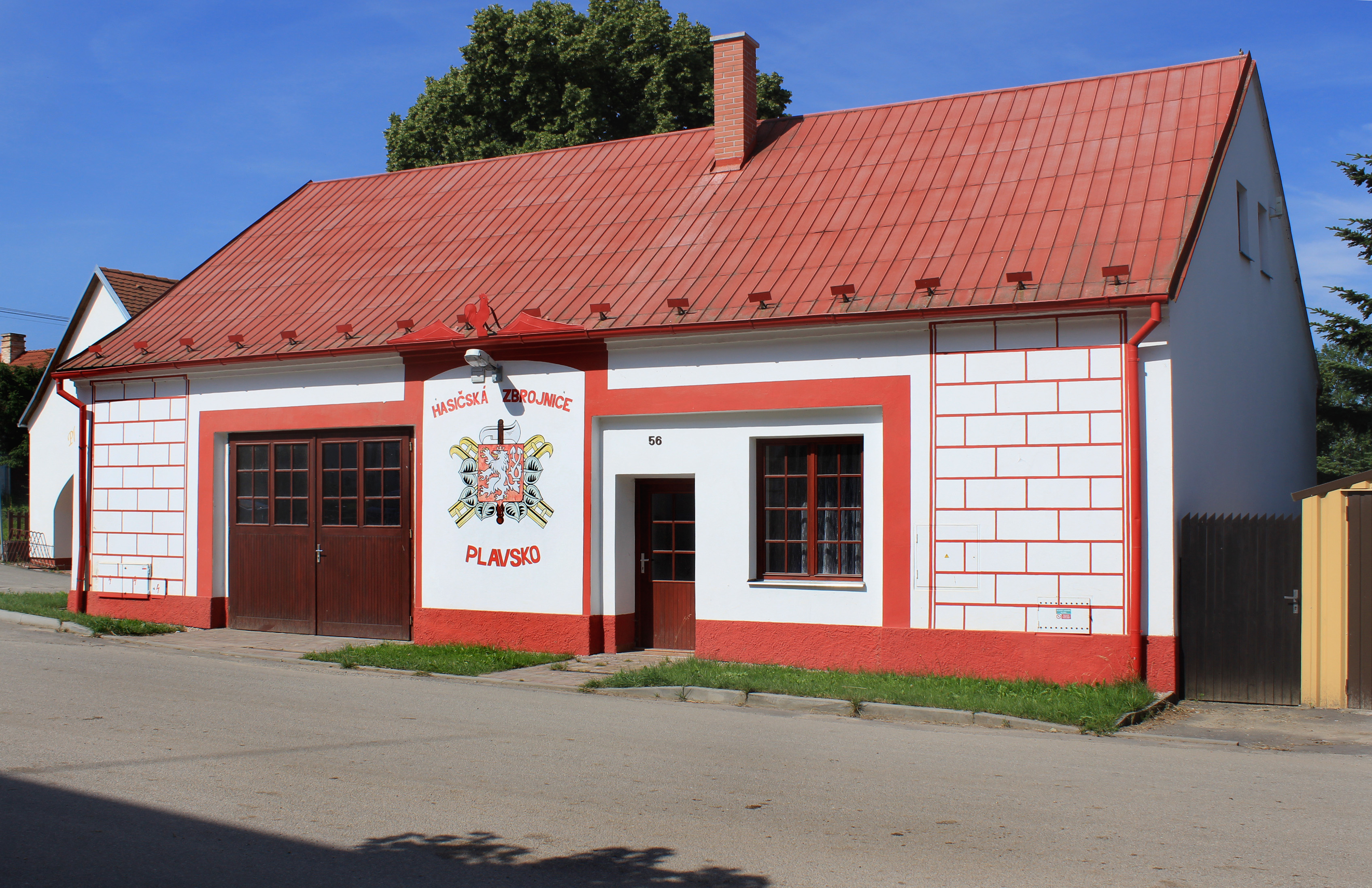 Fire station in Plavsko, Czech Republic.